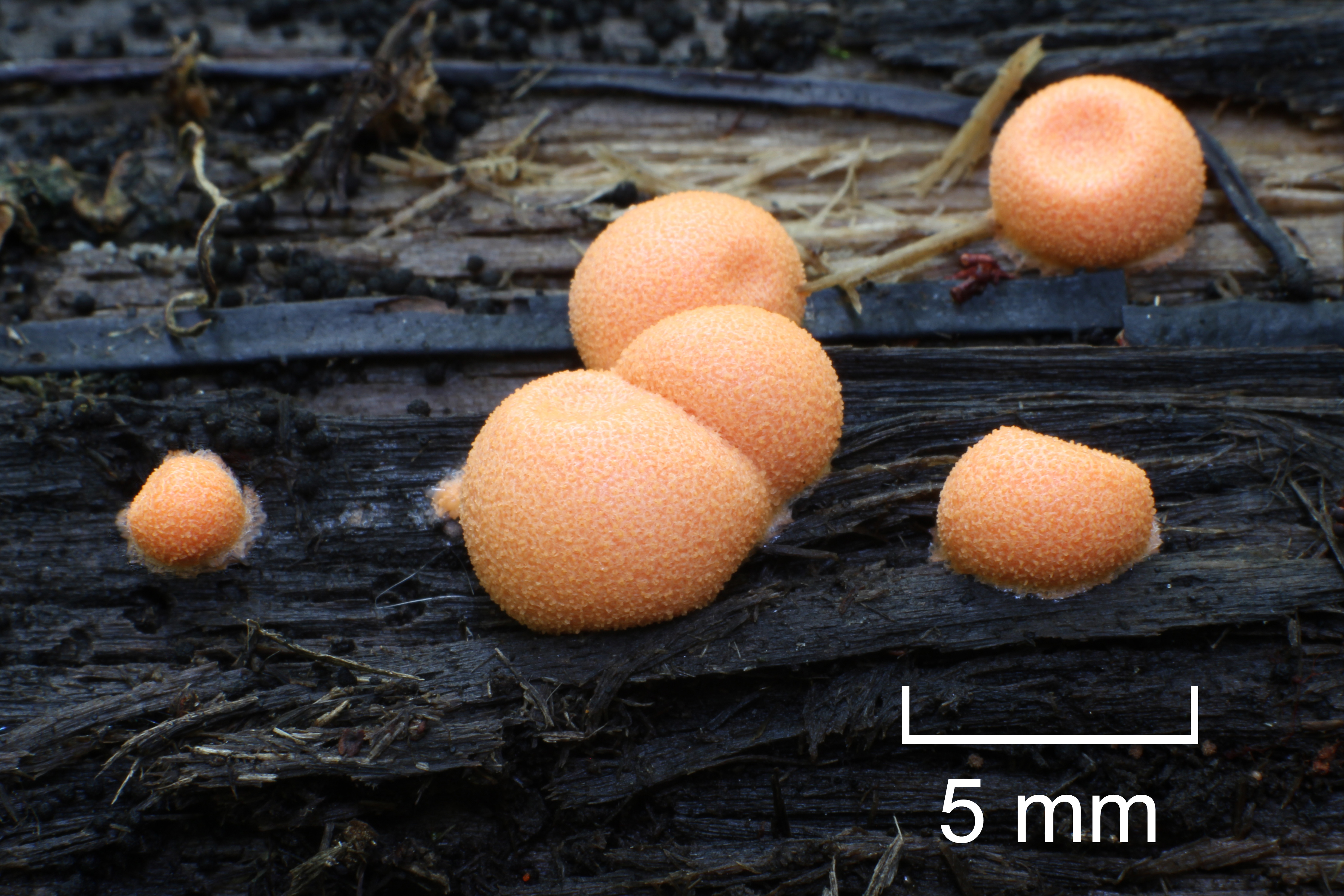 Wolf's milk slime mould, groening's slime mould